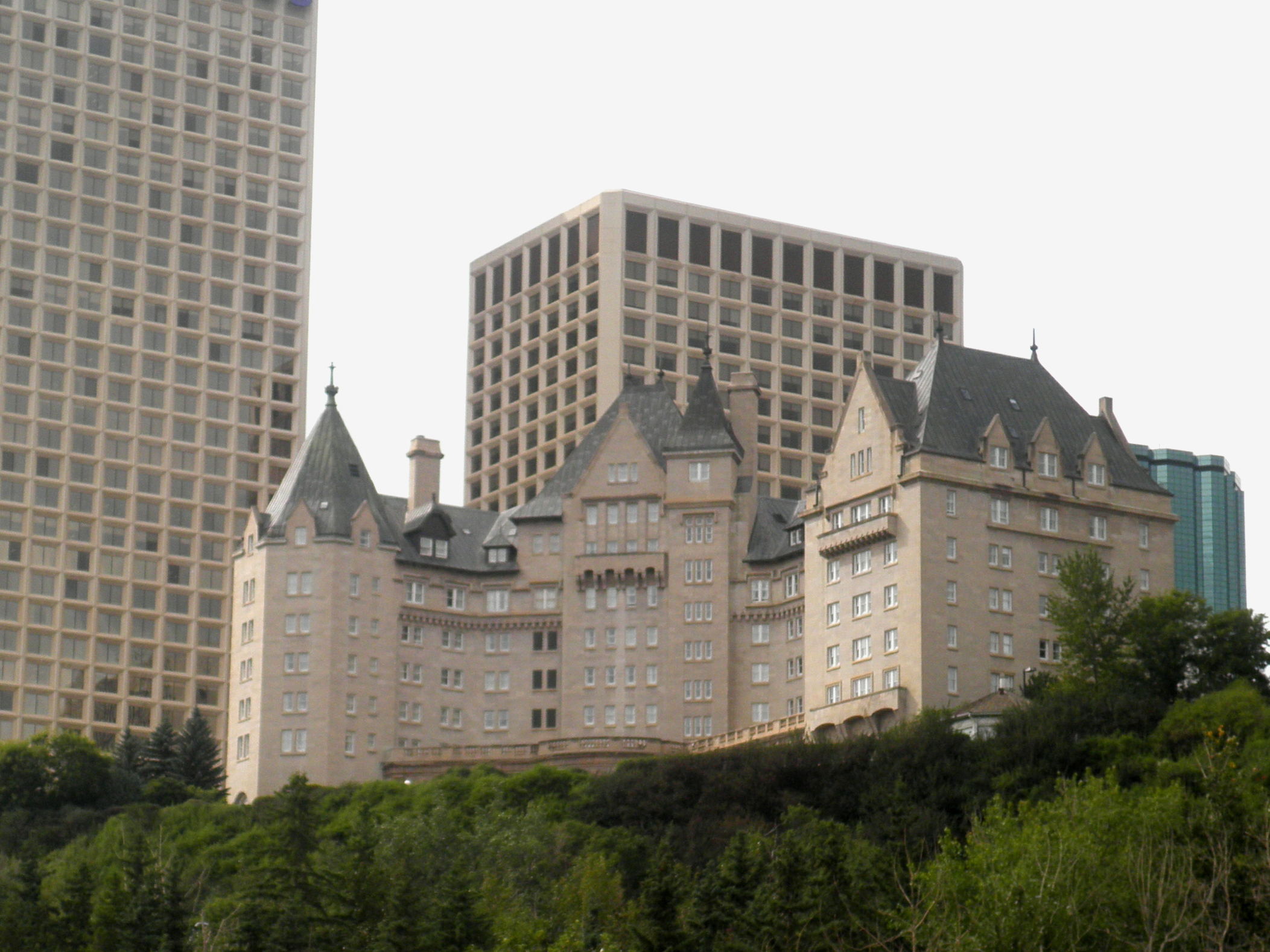 Hotel Macdonald in Edmonton, Alberta as seen from the North Saskatchewan River.